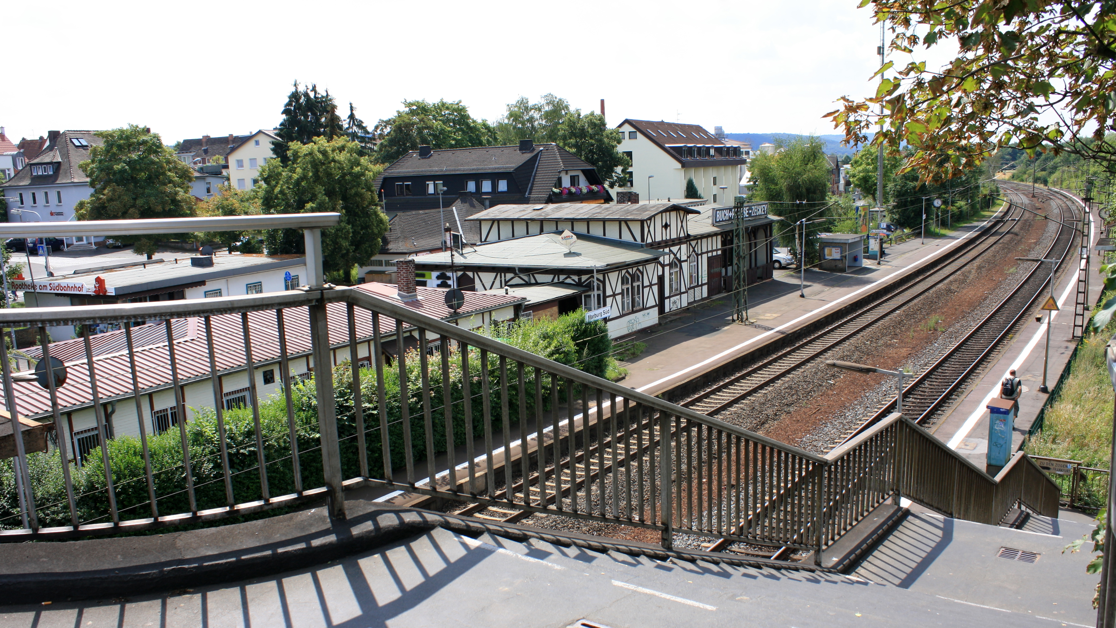 Marburg railroad station south